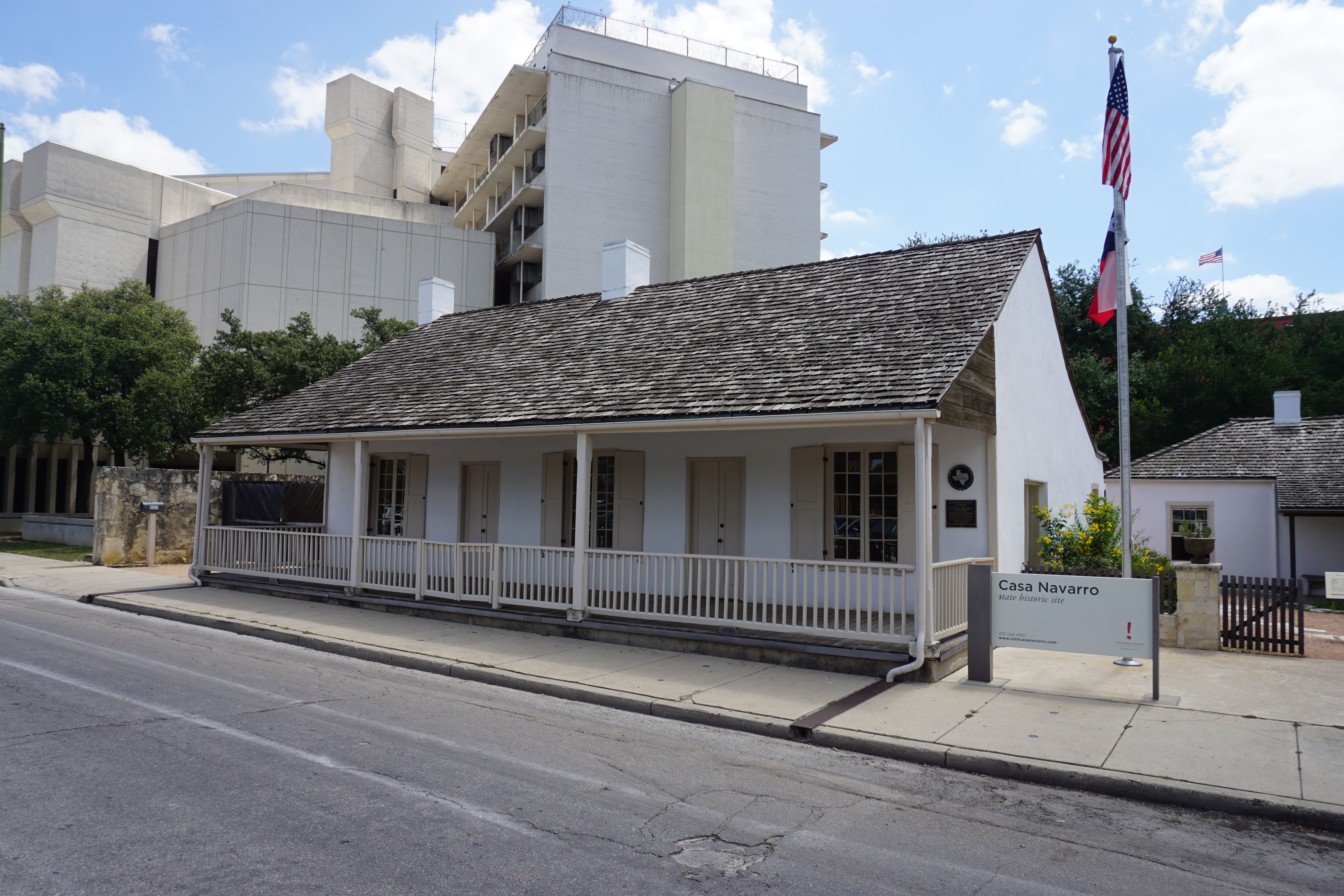 The main house at the Casa Navarro State Historic Site in San Antonio, Texas (United States).